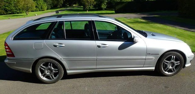 Side view of 2003 C32 AMG estate